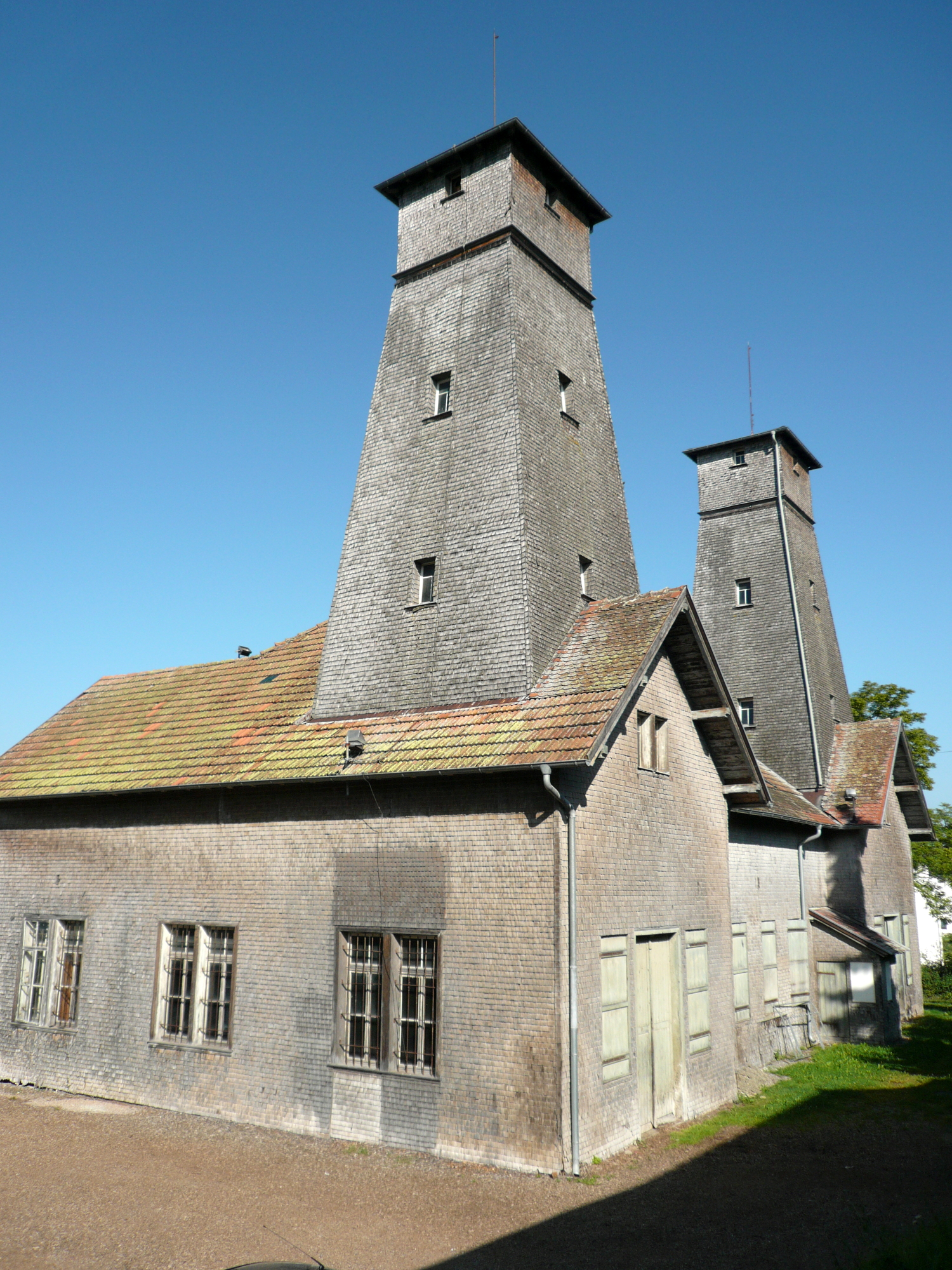 Factory for digging after salt in Bad Duerrheim (19th century).